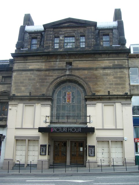 HMV Picture House, Lothian Road Formerly the Caley cinema which opened in January 1923 in a building, partially converted to seat 900 cinema patrons. Since its closure in 1984, it has been used as a nightclub and is currently a late-night music venue.